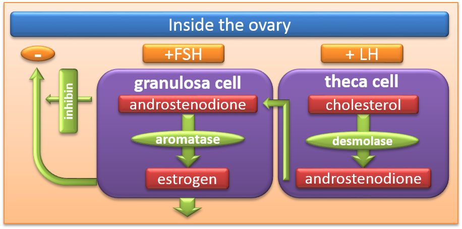 important reactions in the ovary showing the actions of the theca and granulosa cells